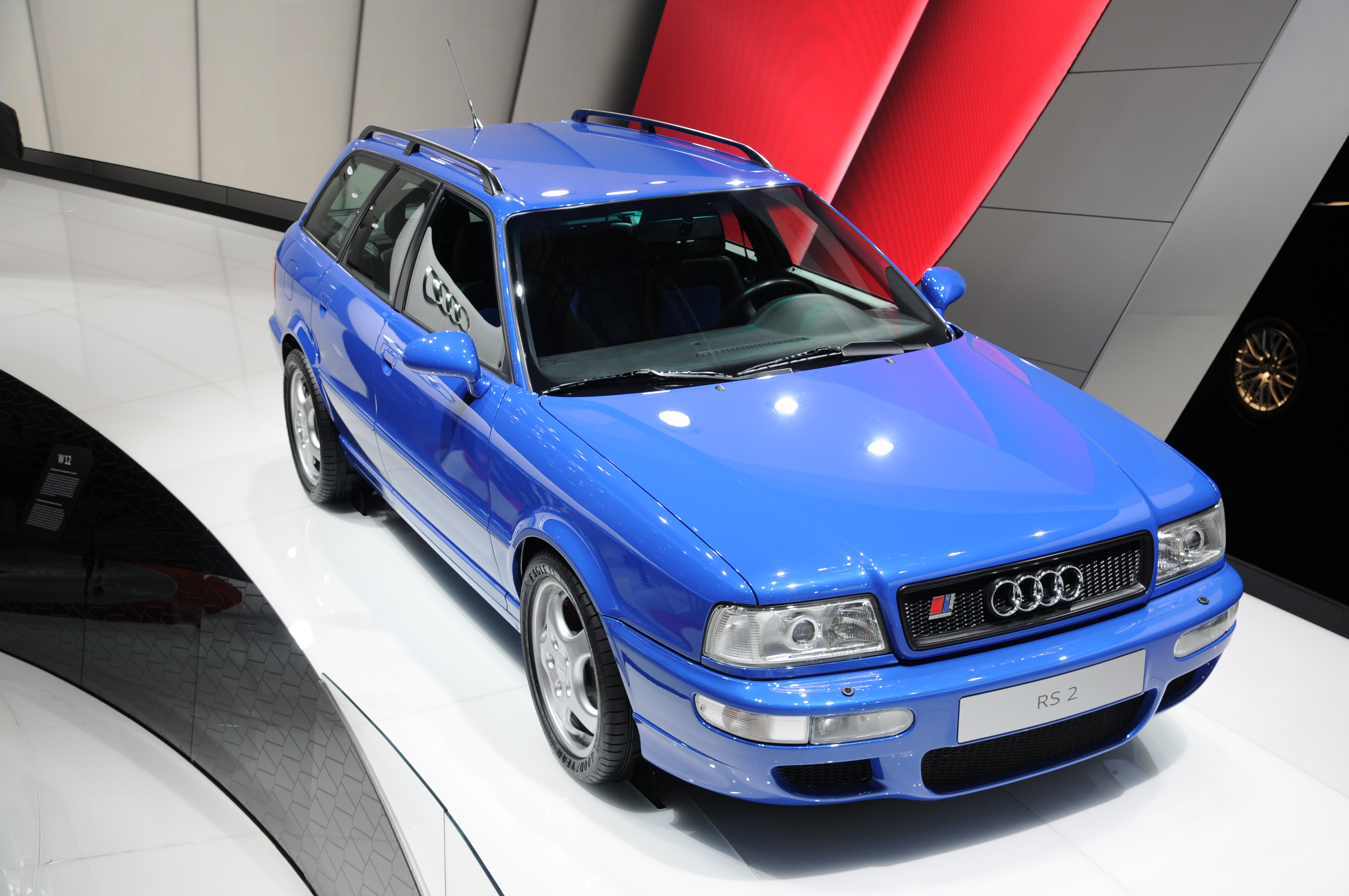 Geneva Motor Show 2014 (photo taken on the first press day)